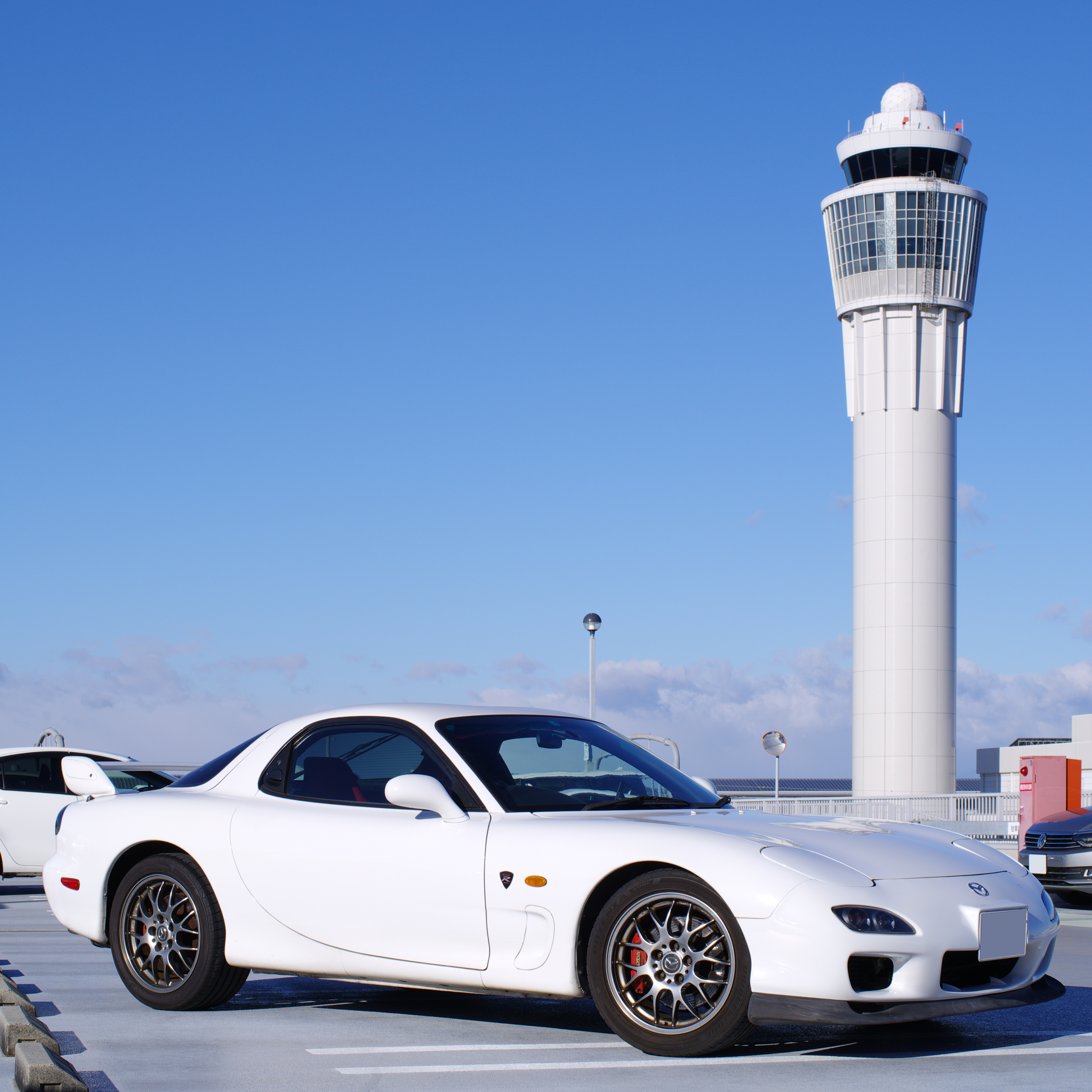 Mazda RX-7 Spirit R Type A at Chubu Centrair International Airport